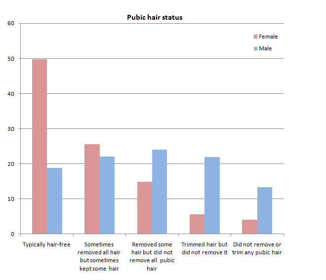 Data based on: Butler, S. M., Smith, N. K., Collazo, E., Caltabiano, L., & Herbenick, D. (2014). Pubic Hair Preferences, Reasons for Removal, and Associated Genital Symptoms: Comparisons Between Men and Women. The journal of sexual medicine.